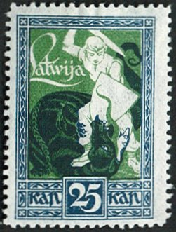 Scan of ‘dragon slayer’ stamp, Latvia, 16 December 1919.